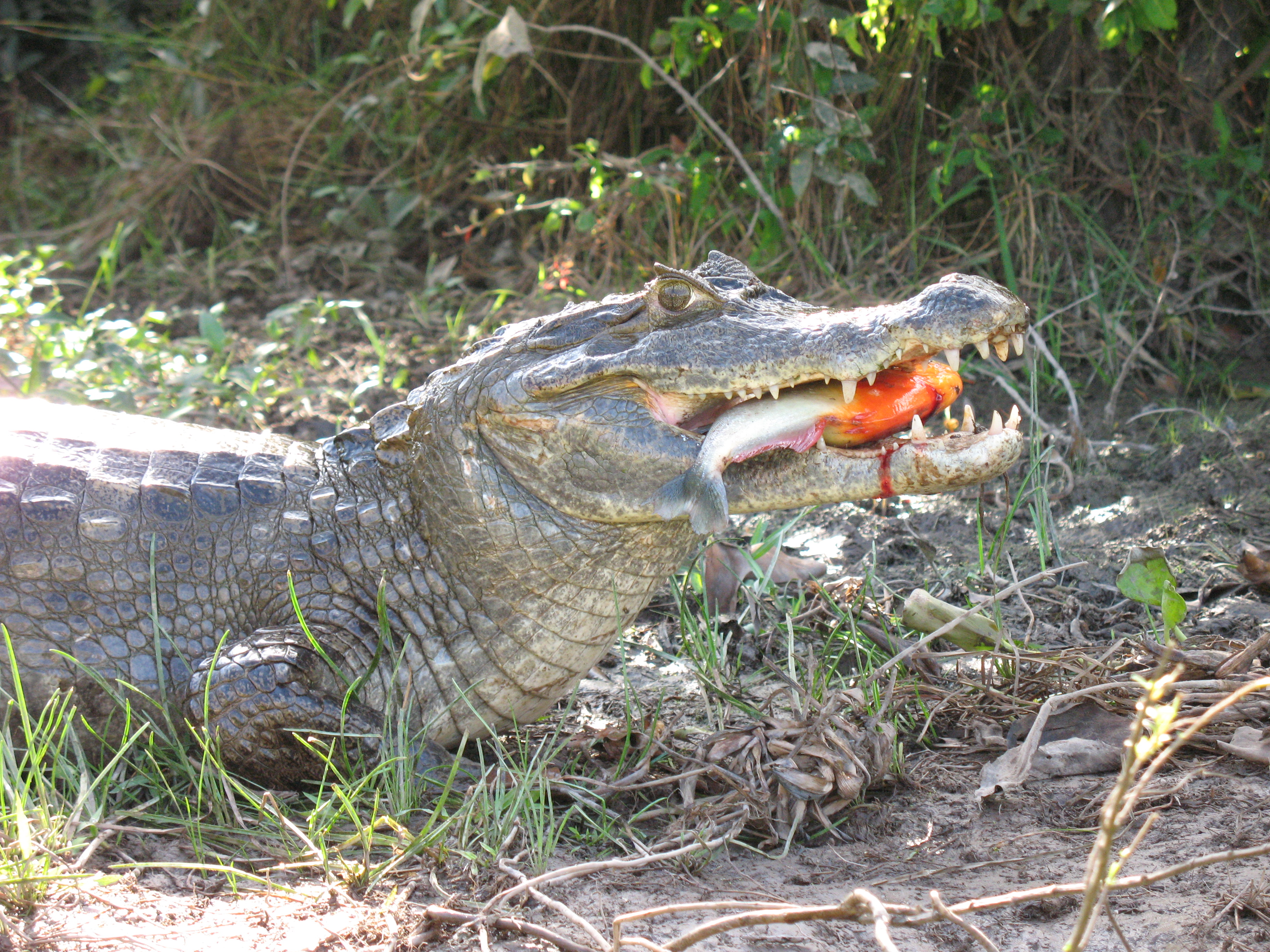 A common caiman (Caiman crocodilus) preying on a piranha, (Llanos Plains,Venezuela)